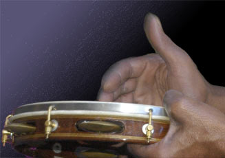 Photo by Eric M. Crawford, "Carlinhos Pandeiro de Ouro playing a Lanka Pandeiro at California Brazil Camp in August, 2005."